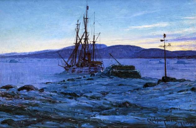 Painting of the ship "Danmark" from the Denmark Expedition to northeastern Greenland in 1906-08